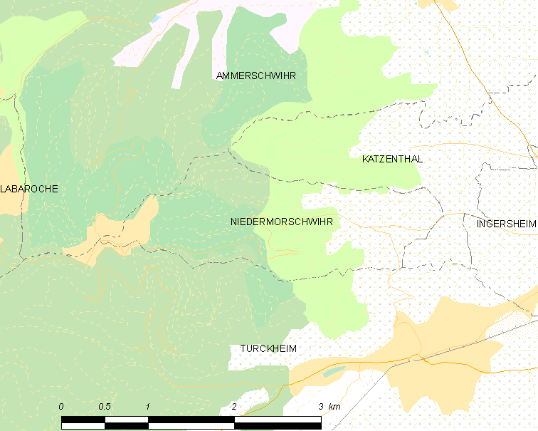 Map of French municipality